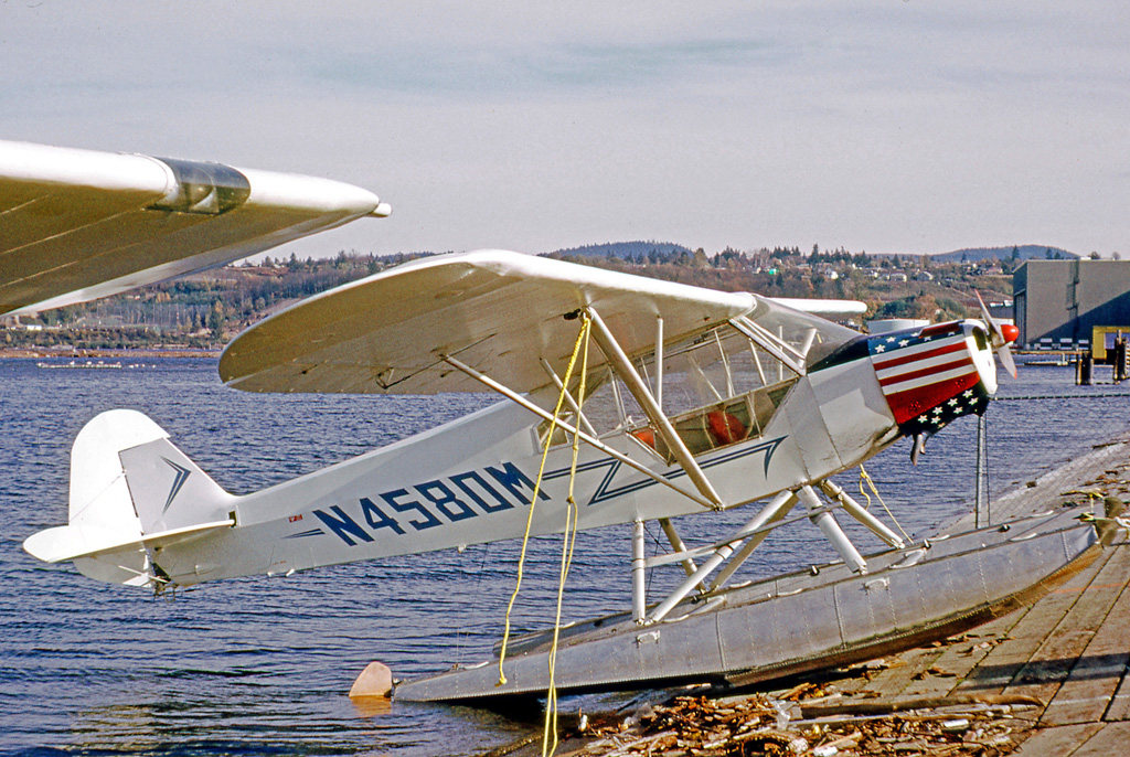 Piper PA-11S Cub Special floatplane N4580M at Seattle Renton in 1973